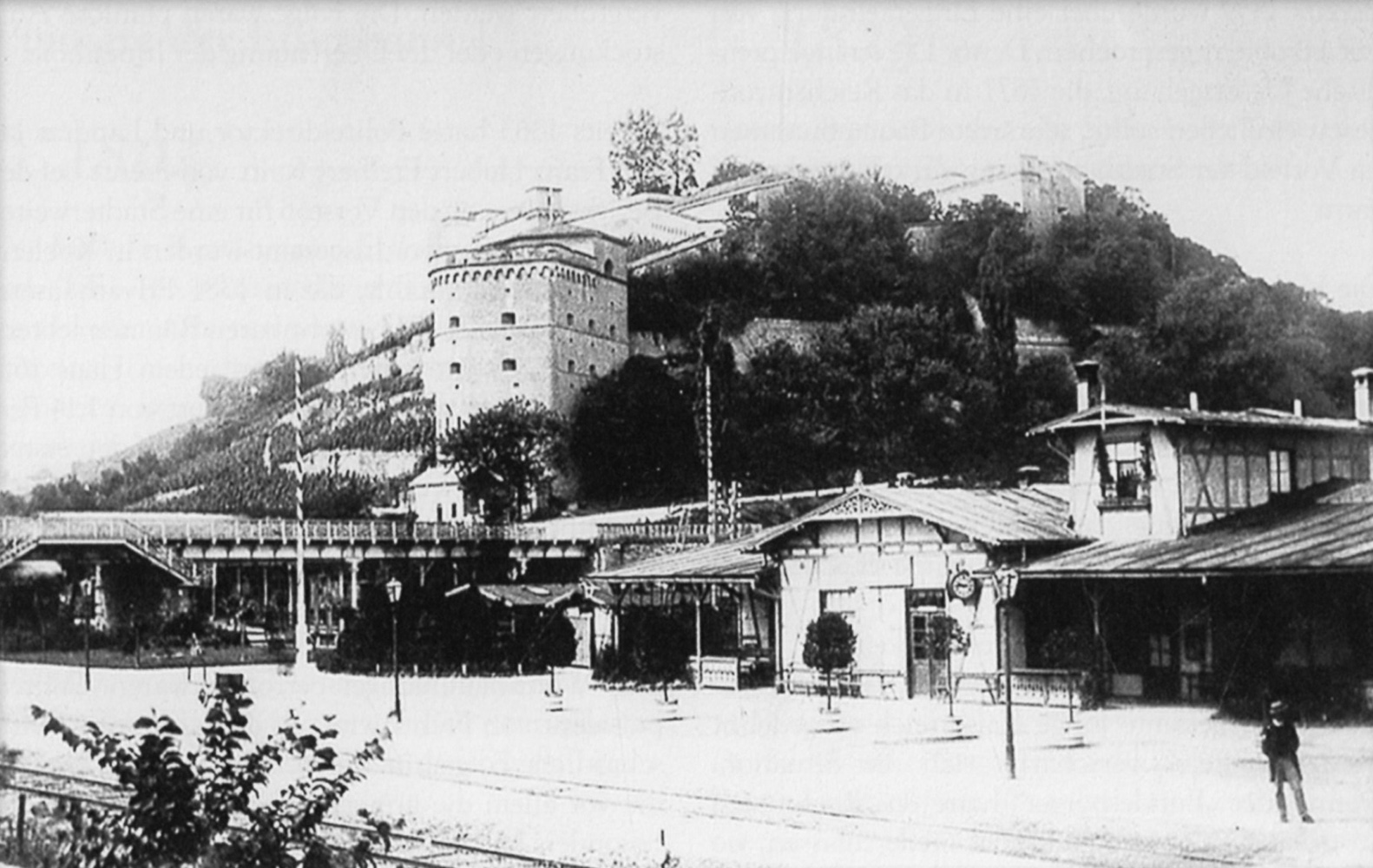 Mosel station in Koblenz